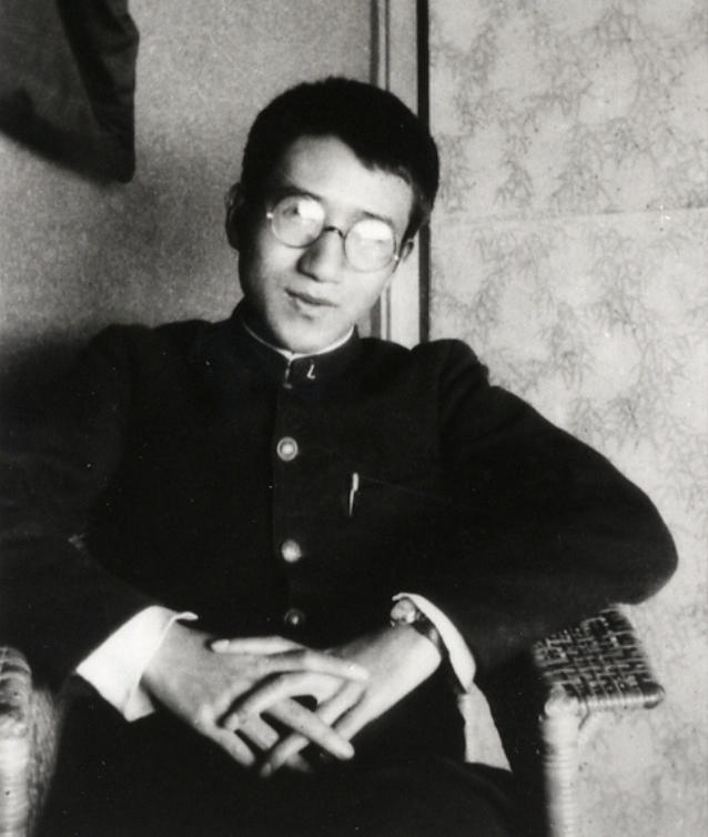 High school photo